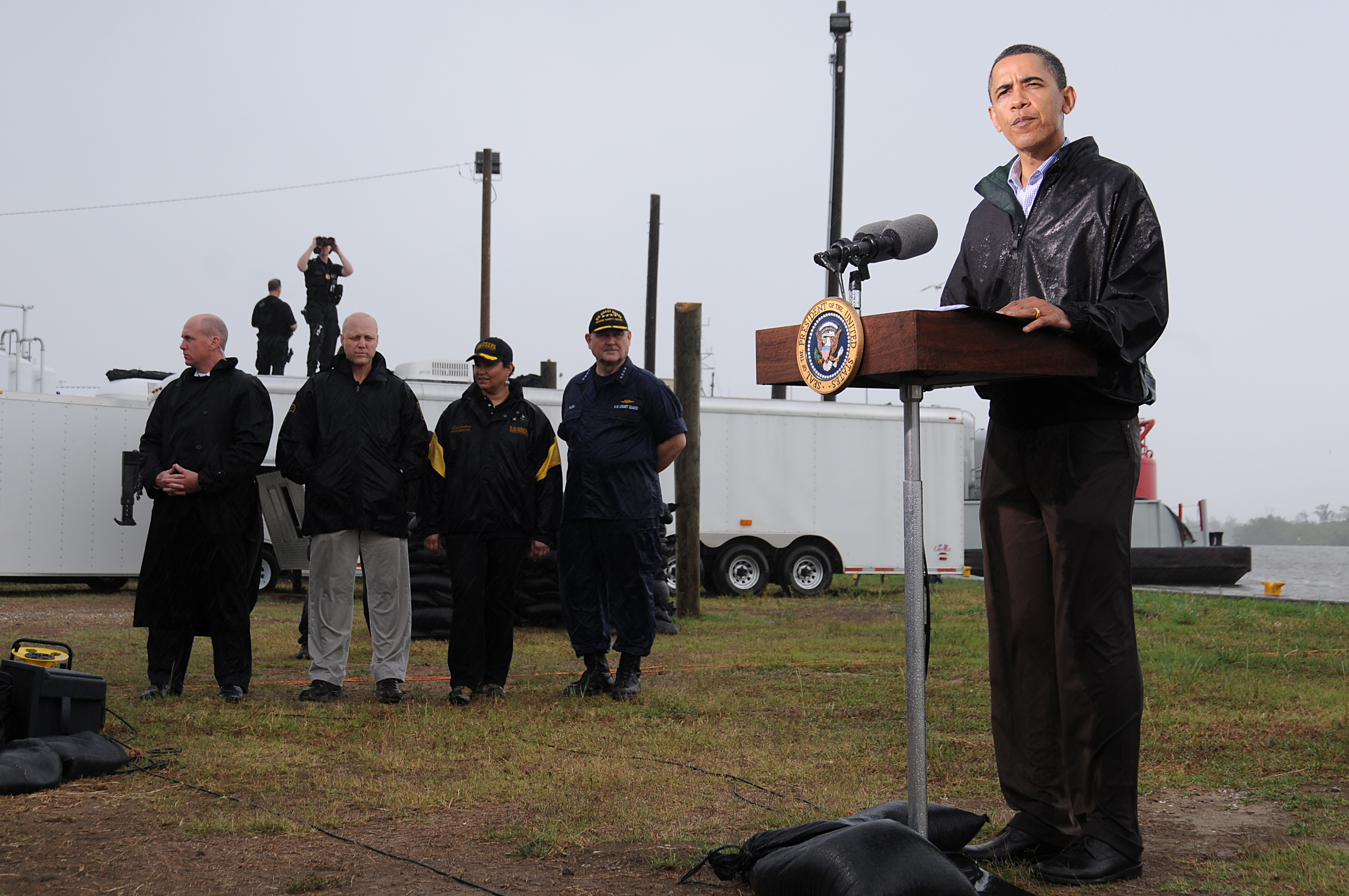 VENICE, La. - President Barack Obama addresses the media at Coast Guard Station Venice May 2, 2010. U.S. Coast Guard photo by Petty Officer 3rd Class Patrick Kelley. Mitch Landreiu, Louisiana Lt. Governor and mayor-elect of New Orleans, standing second from left.